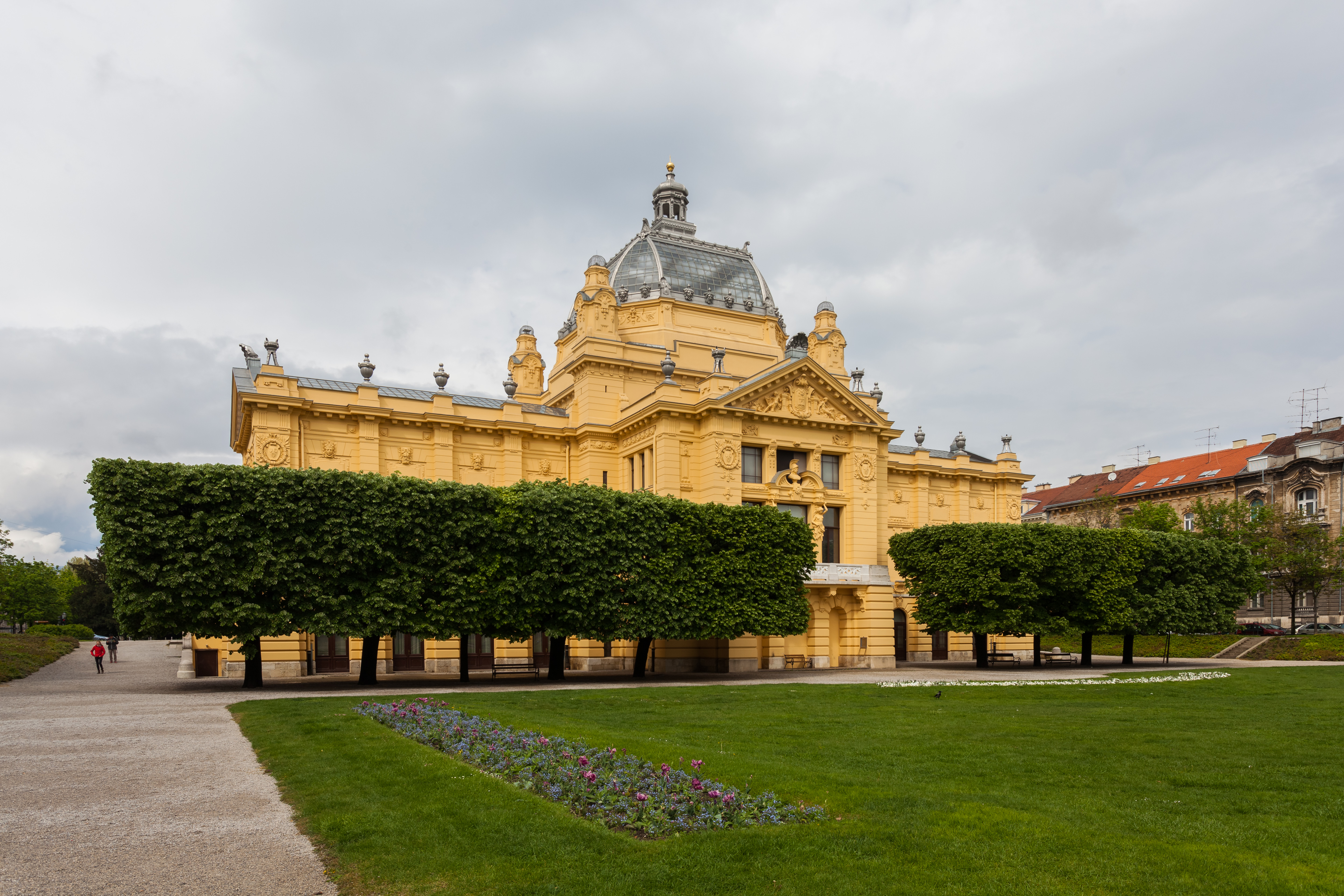 Art Pavillon, Zagreb, Croatia